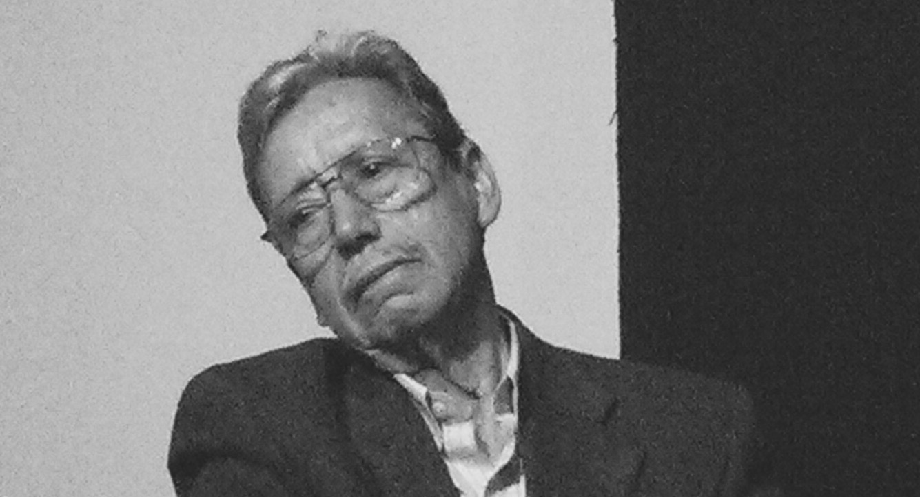 El poeta Ramón Palomares (1935-2016) en la población de Escuque, estado Trujillo, Venezuela.